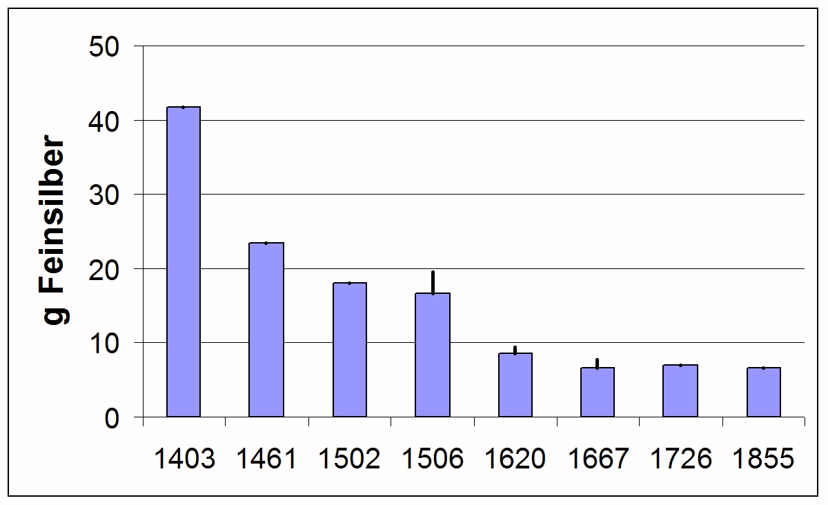 Depreciation of one Mark Lubeck money from 1403-1855 in g pure silver